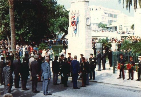 Remembrance Day parade, 11 November, ca. 1990, Front Street, Hamilton, Bermuda. War veterans are inspected by HE The Governor, Major-General Sir Desmond Langley (he is speaking with Second World War veteran, former Second-in-Command of the Royal Bermuda Regiment, St. George's Town Crier, and Guinness World Record holder (for loudest human speaking voice) Major Donald Henry "Bob" Burns, MC).